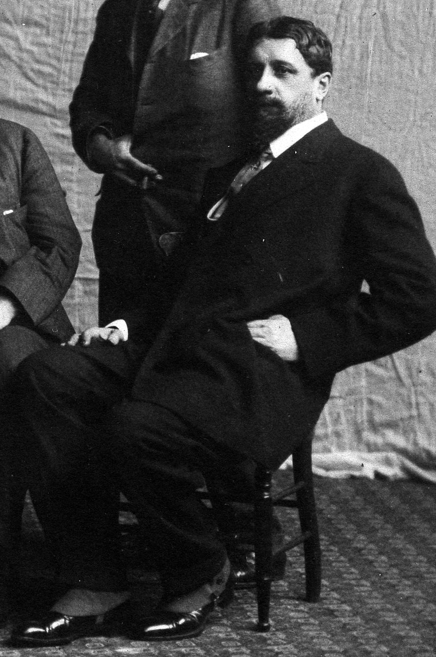 Ten American Painters (The Ten), 1908 Ten American Painters (The Ten), 1908, by Haeseler Photographic Studios, Philadelphia, Pennsylvania. Courtesy of the Smithsonian American Art Museum, Photograph Archives, Washington, D. C.